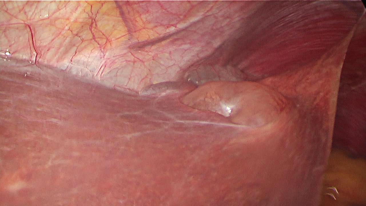 Cyst of the liver